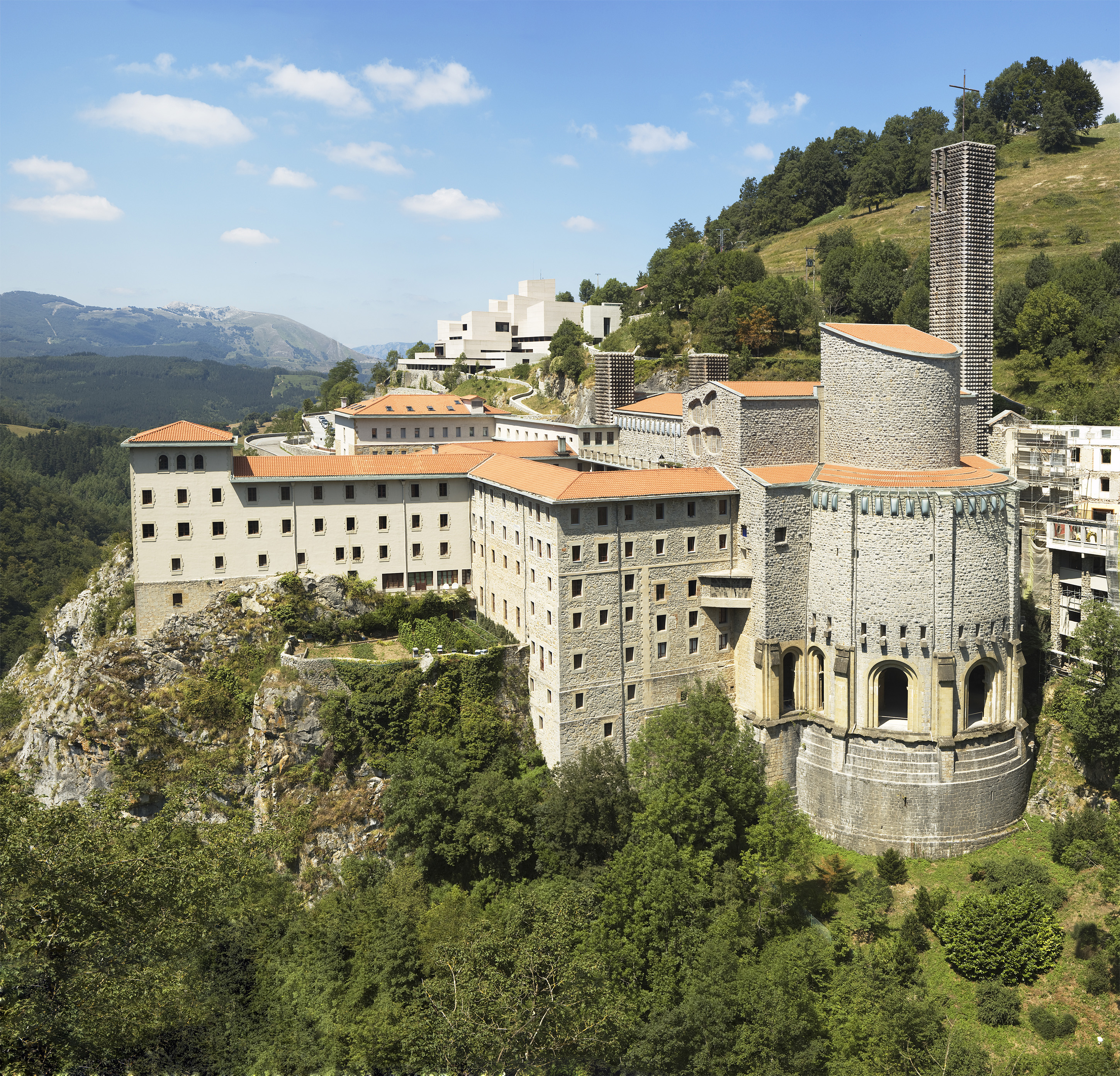 The sanctuary of Arantzazu, in Oñati, Gipuzkoa, is located in the site where the Virgin of Arantzazu appeared to the shepherd Rodrigo Baltzategi in 1468. The modern basilica was made in the mid-20th century, by architect Saenz de Oiza, and sculptors Jorge Oteiza and Eduardo Chillida, among other artists. Panoramic image made from 9 separate photos.